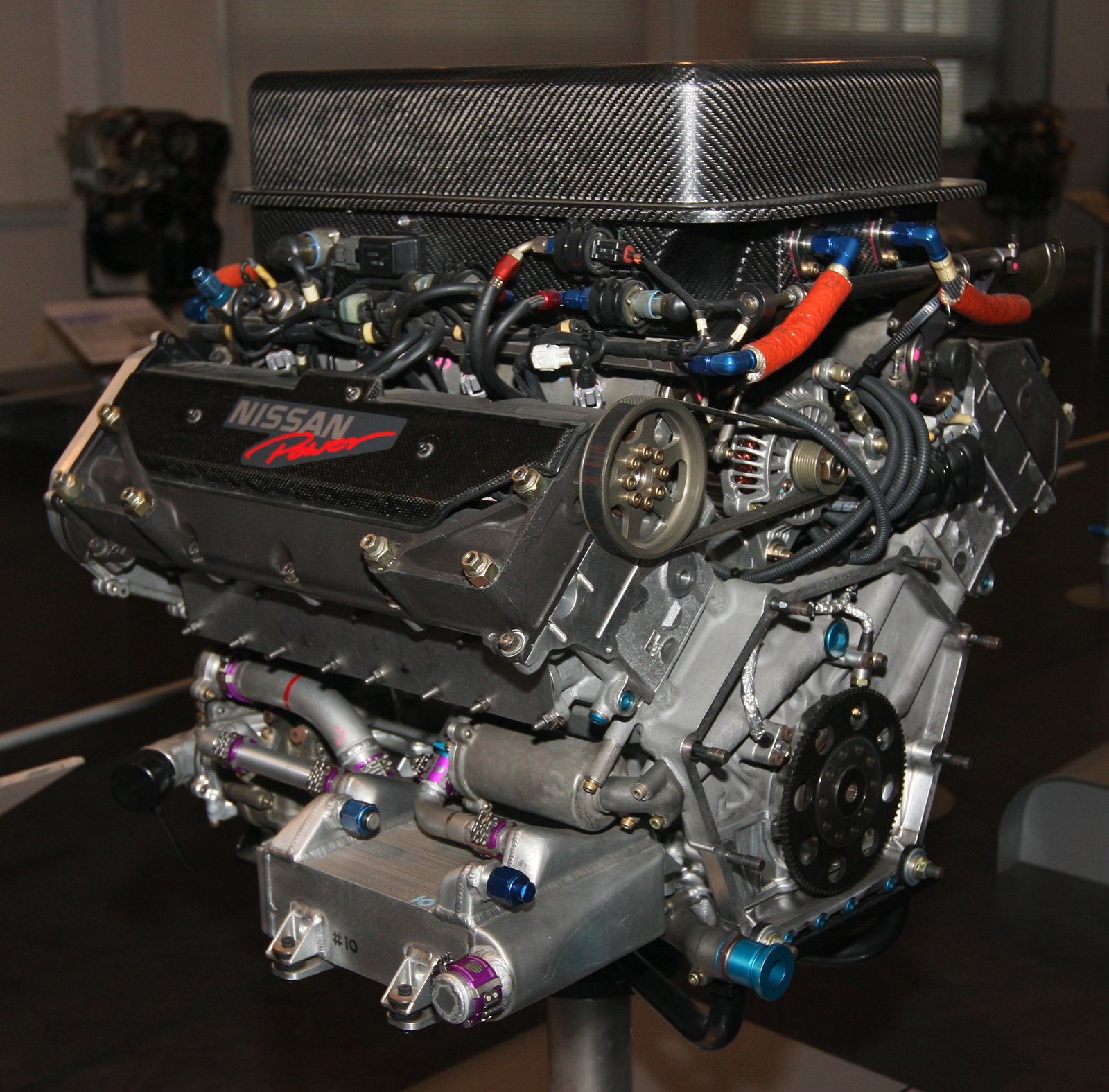 1999 Nissan VRH50A engine (for the Nissan R391 Le Mans Prototype)